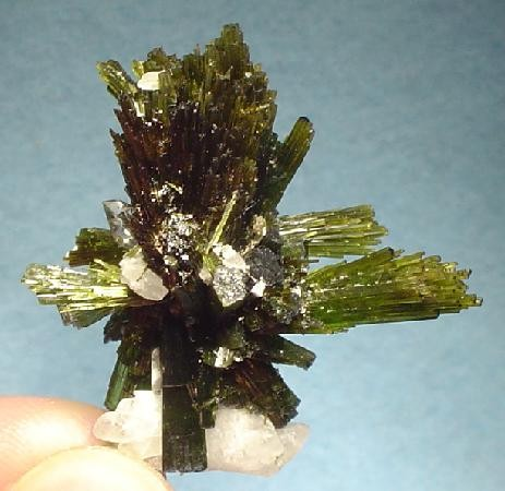 Elbaite Locality: Emerald mines, Campos Verdes, Santa Terezinha de Goiás District, Goiás, Central-West Region, Brazil (Locality at ) Size: 3.7 x 3.5 x 3.3 cm. A GORGEOUS, 3-dimensional spray of gemmy and lustrous, green tourmaline crystals beautifully accented by a bit of tabular, white albite from an UNCOMMON Brazilian locality in Goias State - Campos Verdes. 360 degree tourmaline clusters, such as this and in this quality, are uncommon. A SUPERB piece.